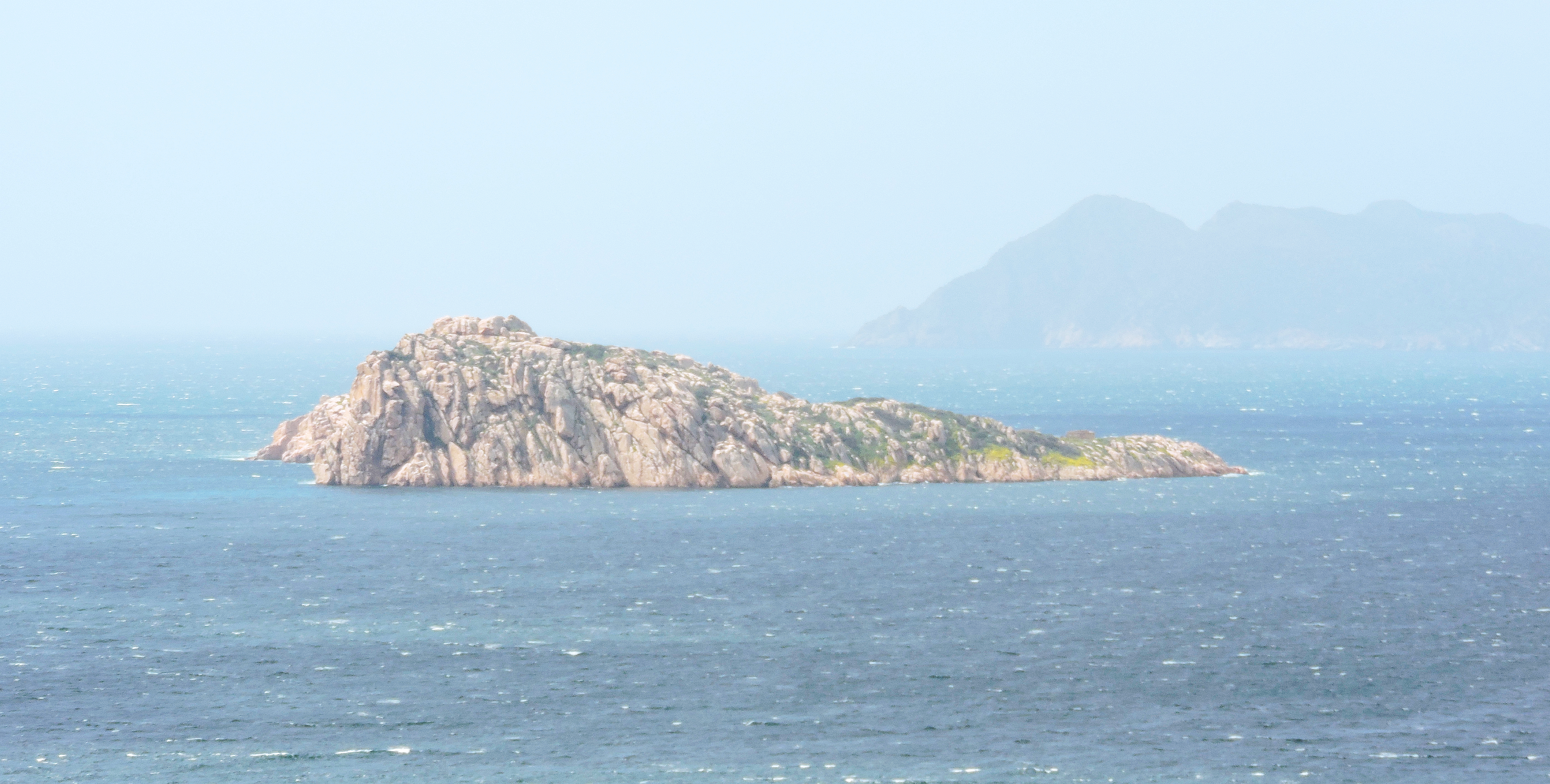 Isola Rossa (Red Island), on the background Capo Teulada (Sardinia, Italy)